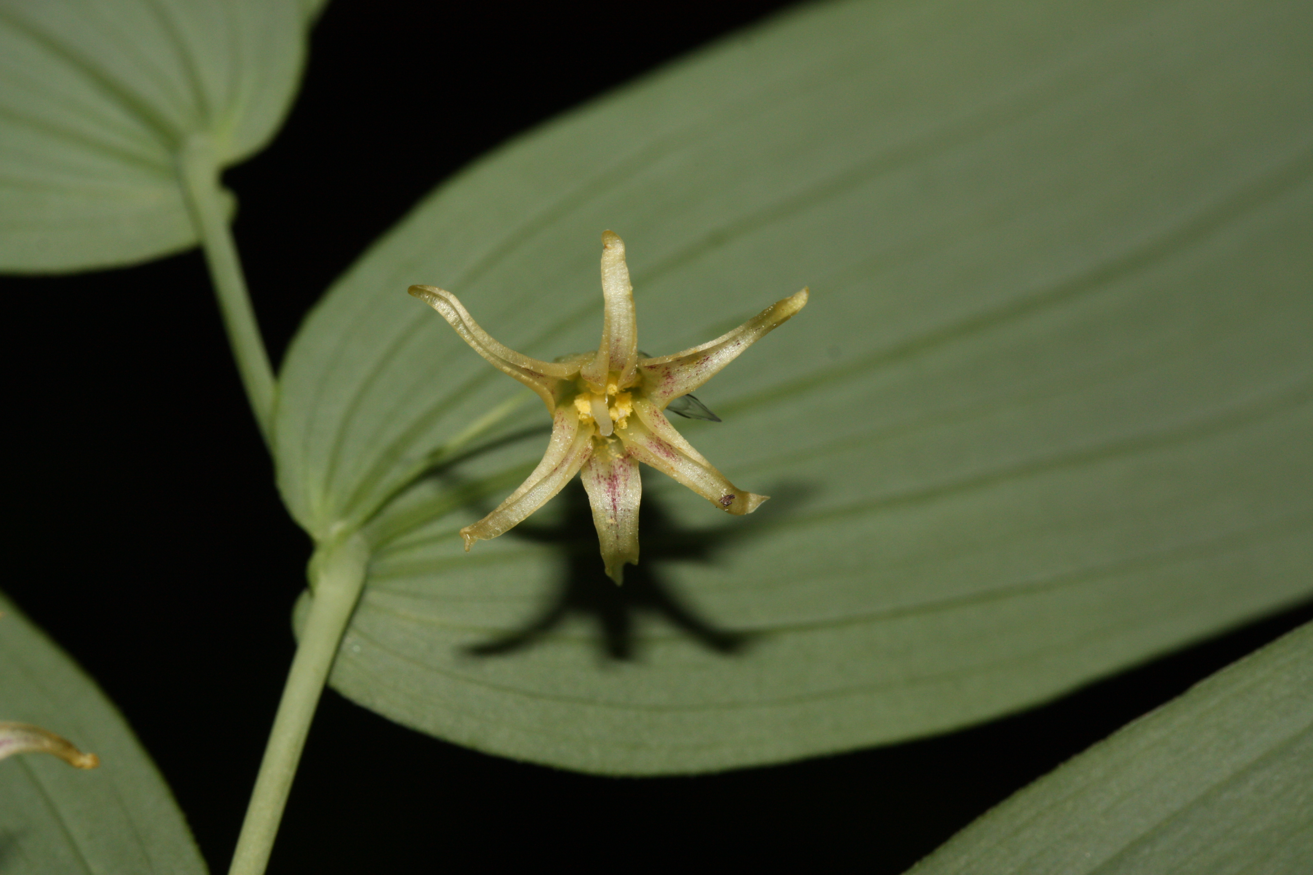 Clasp-leaf Twisted-stalk, Clasping Twisted-stalk